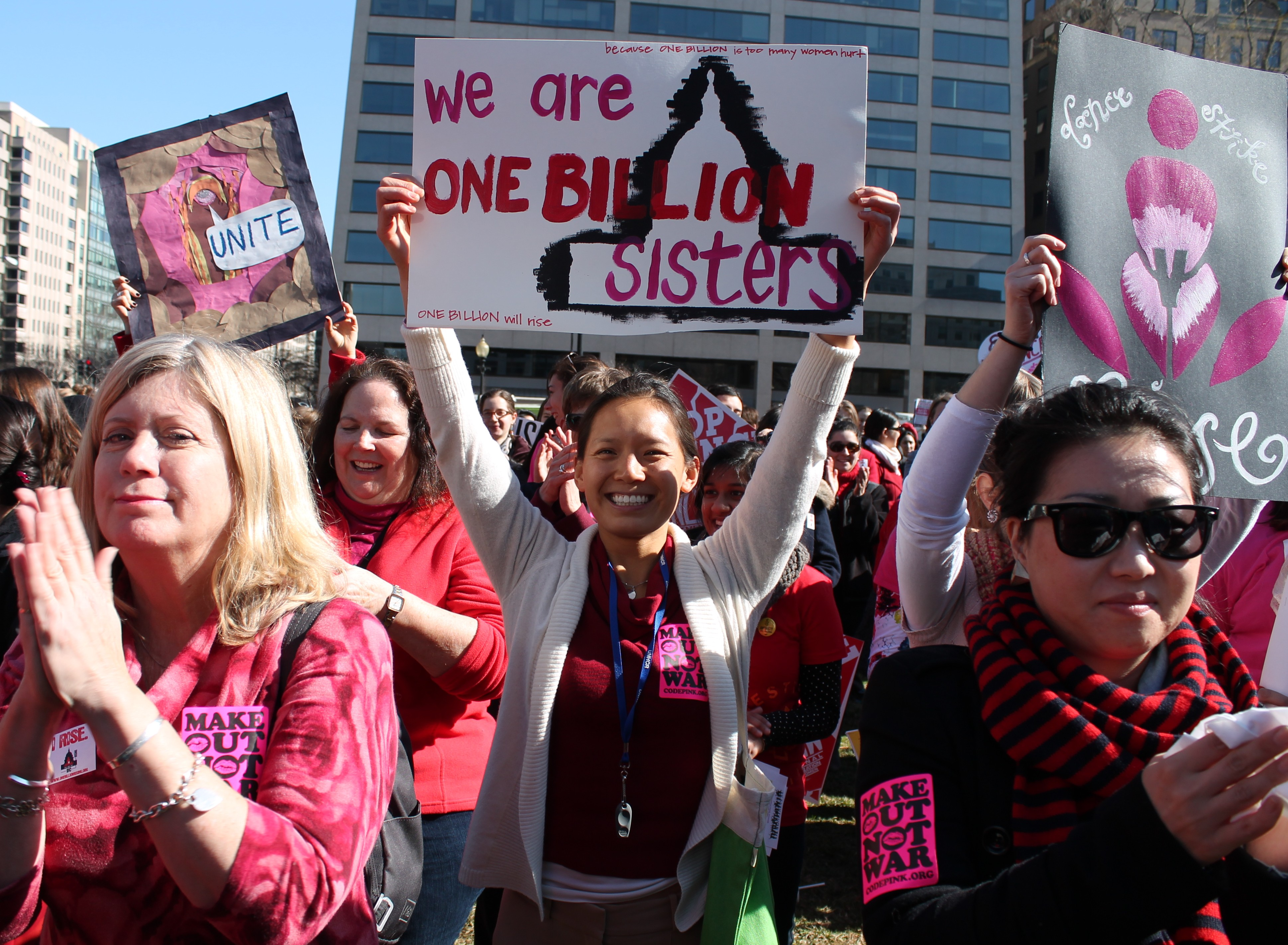 People protesting for an end of violence against women in the 'One Billion Rising' campaign on Farragut Square, Washington D.C., on Valentine's Day 2013.